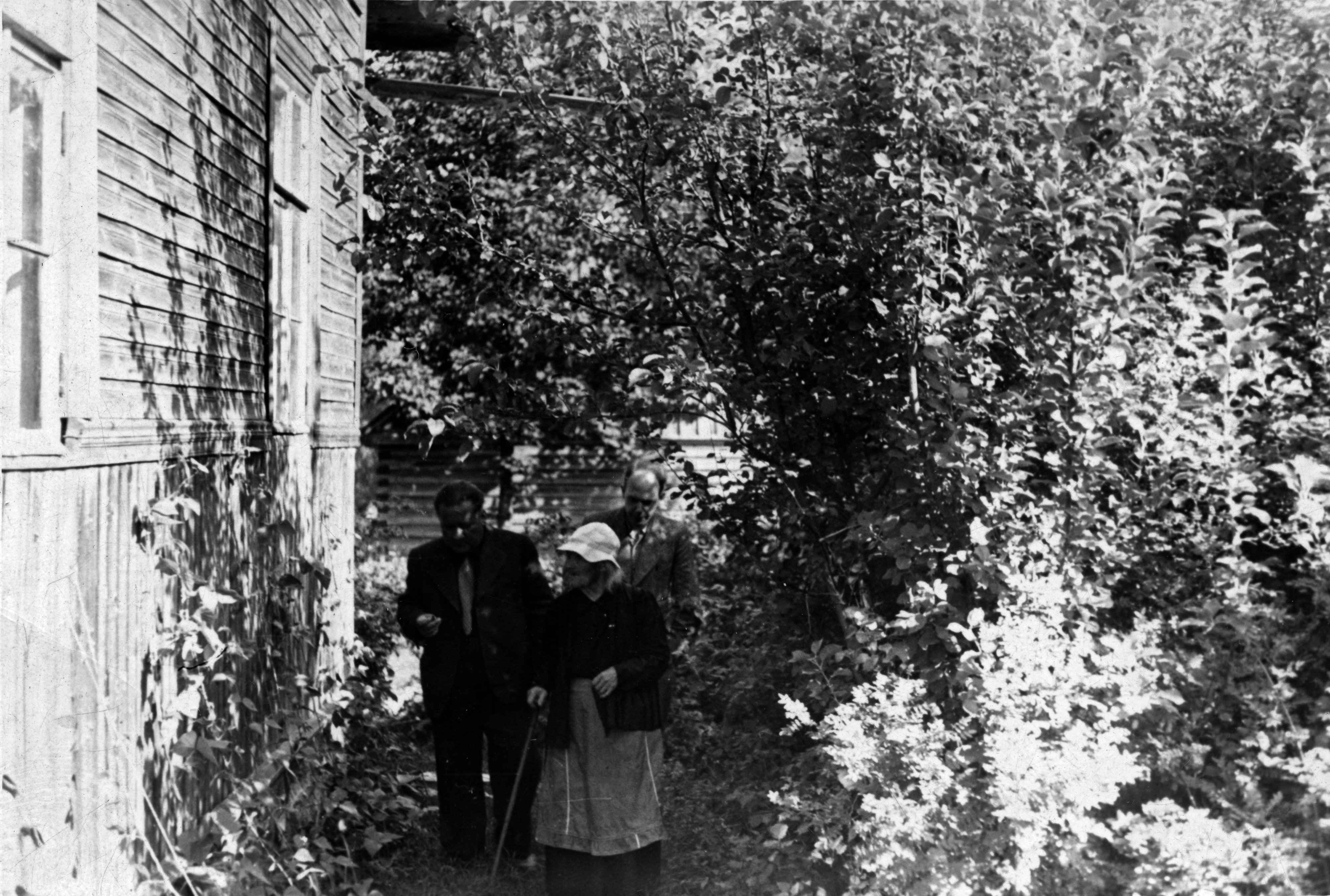 Helena Södergran, Elmer Diktonius och Gunnar Ekelöf. Edith Södergrans samling Signum: slsa566_386 Foto: Unknown / Hagar Olsson Svenska litteratursällskapet i Finland